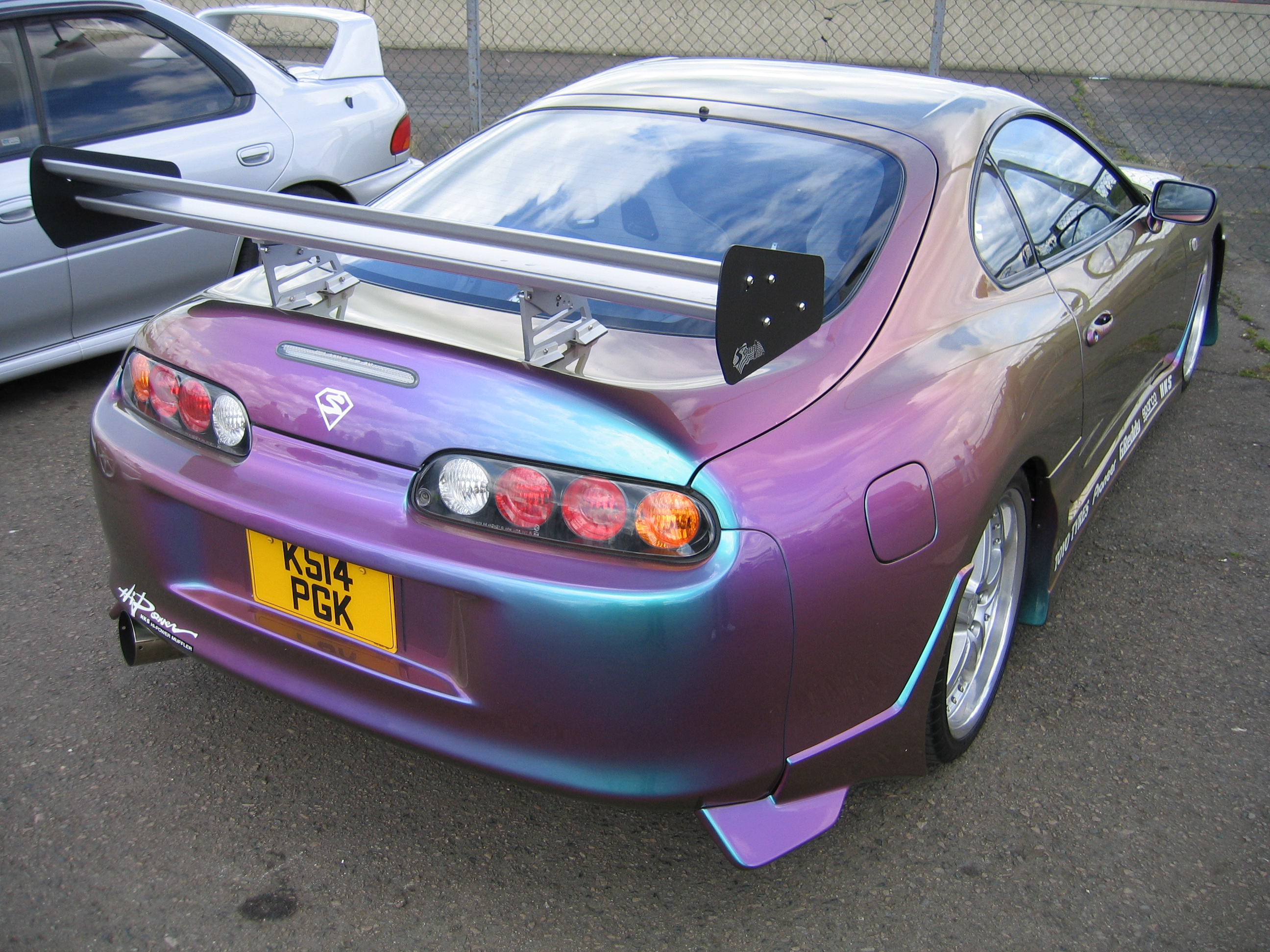 Another photo of the Supra.